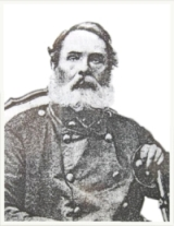 This image was print screened from a historical book dedicated to yehowists.